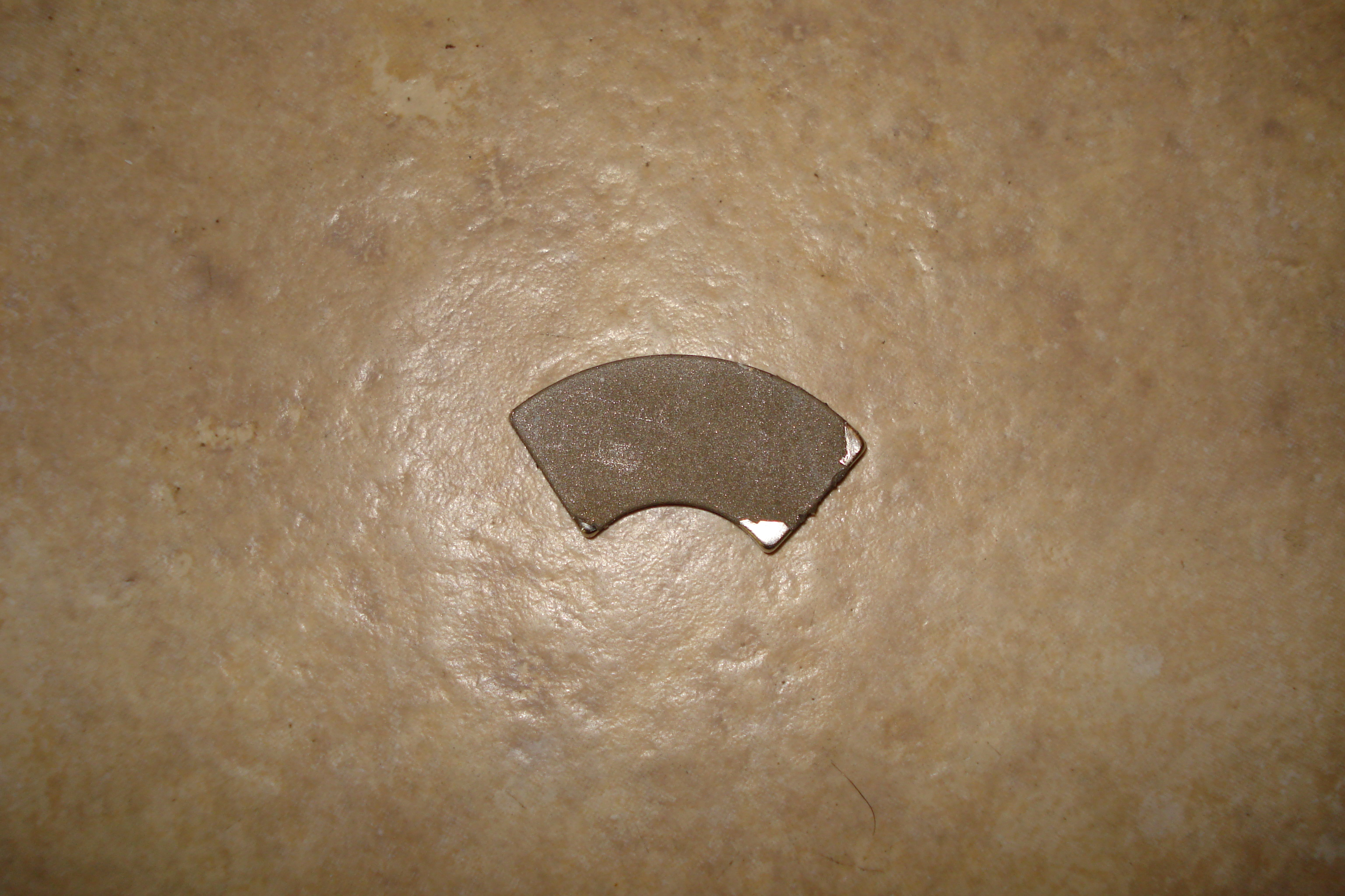 Neodymium magnet with nickel plate removed